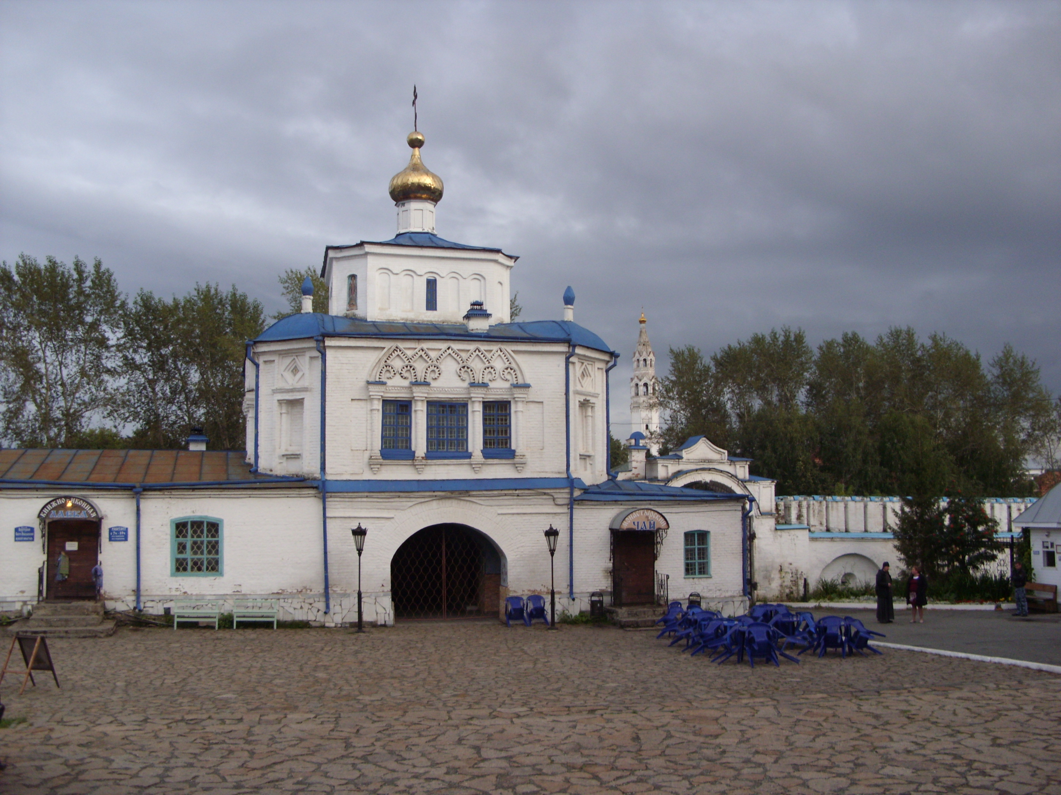 Verhotur'e. Monastyr'